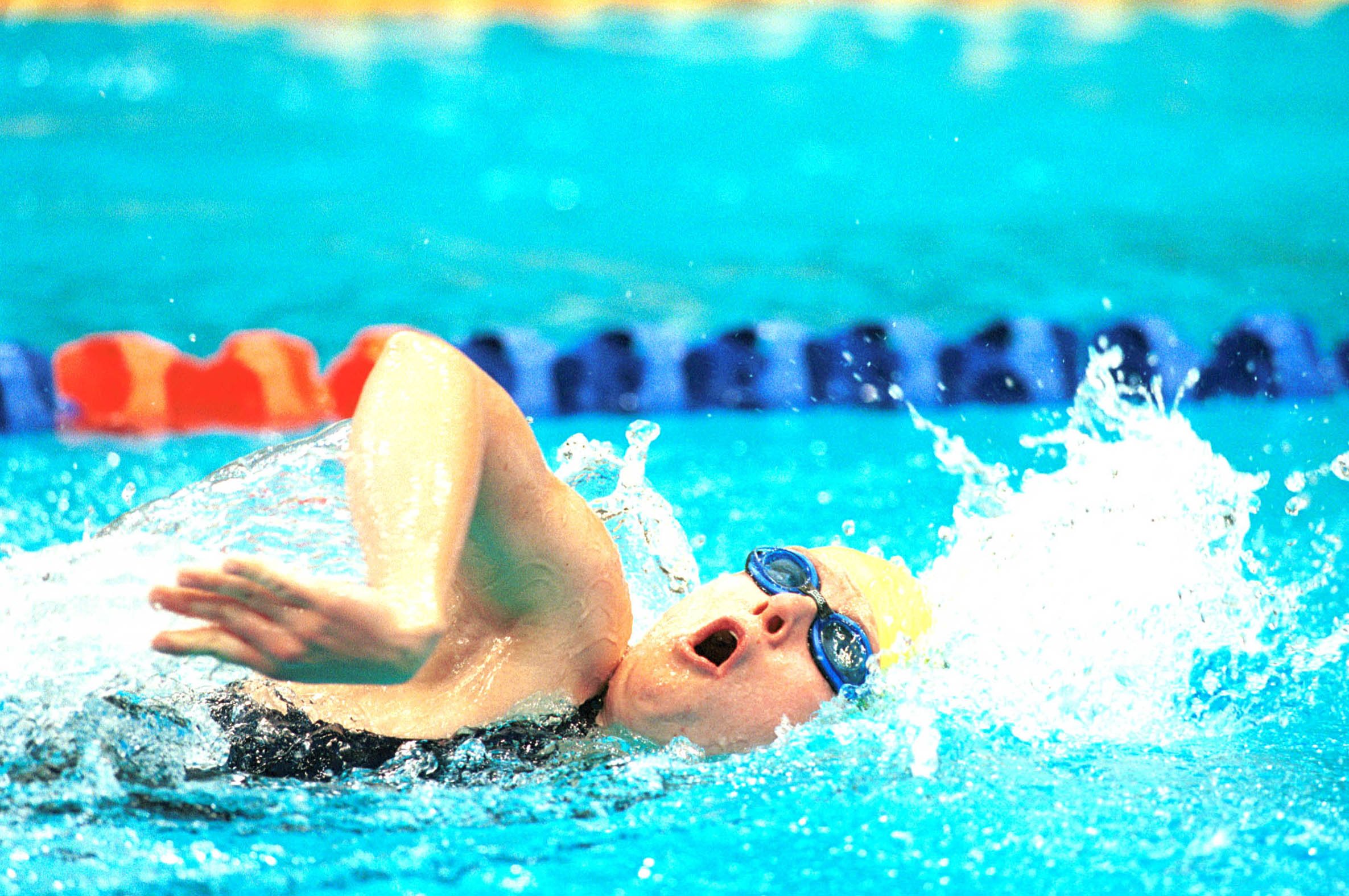 Action shot of Australian swimmer Tamara Nowitzki during competition at the 2000 Sydney Paralympic Games